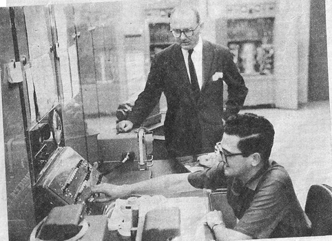 Manuel Sadosky and Juan Carlos Angio, with the computer "Clementina"